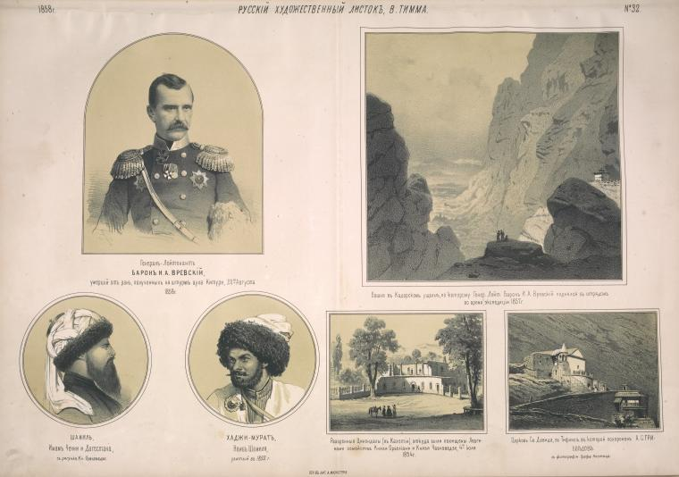 General-Leitenant Baron Vrevskii; Bashnia v Kadorskom ushchel'e; Shamil', Imam Chechni I Dagestana; Khadzhi -Murat, naib Shamilia; Razorennyia Tsinondaly; Tserkov' Sv. Davida v Tiflise.